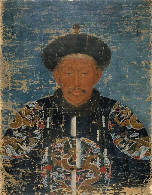 Tseren (杜尔), leader of the Mongolian Tribe Dorbet.